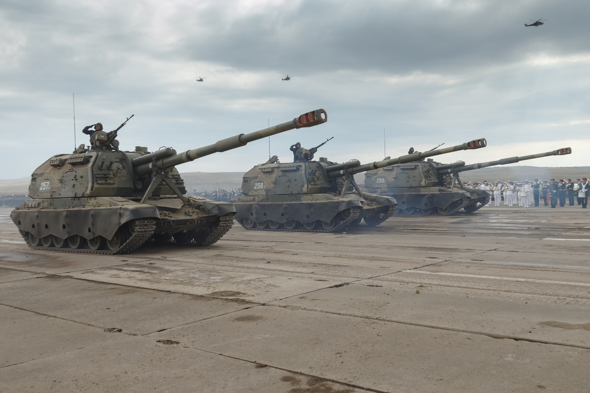 Military parade in Tsugol proving ground. 2S19M2.